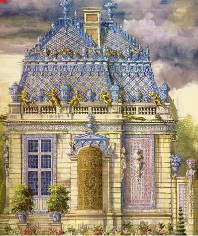 Artists impression of Le Trianon de Porcelaine